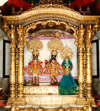 Image of Madan Mohan Dev at Swaminarayan Temple Dholera.